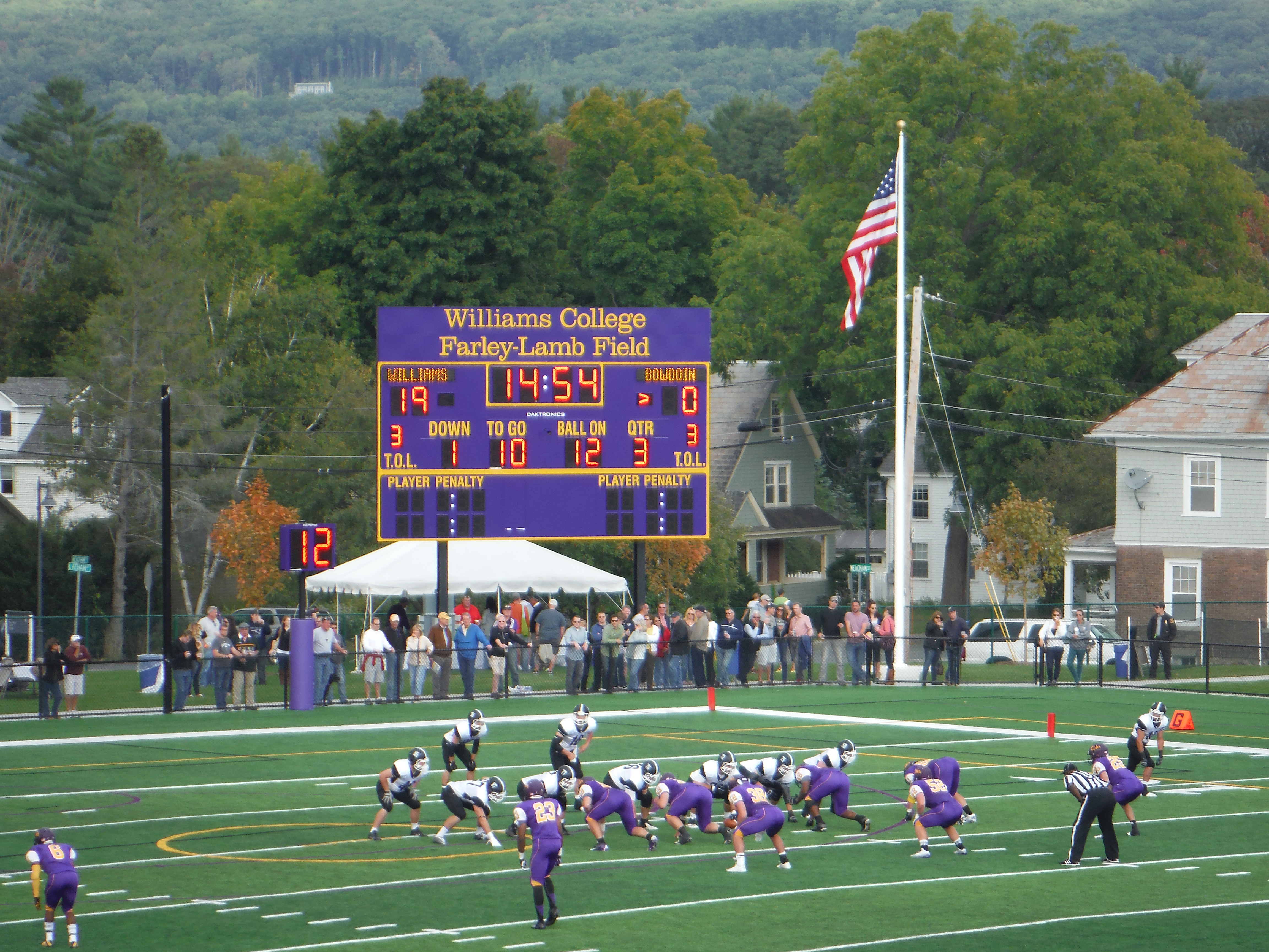 An artificial turf playing field completed in September 2014